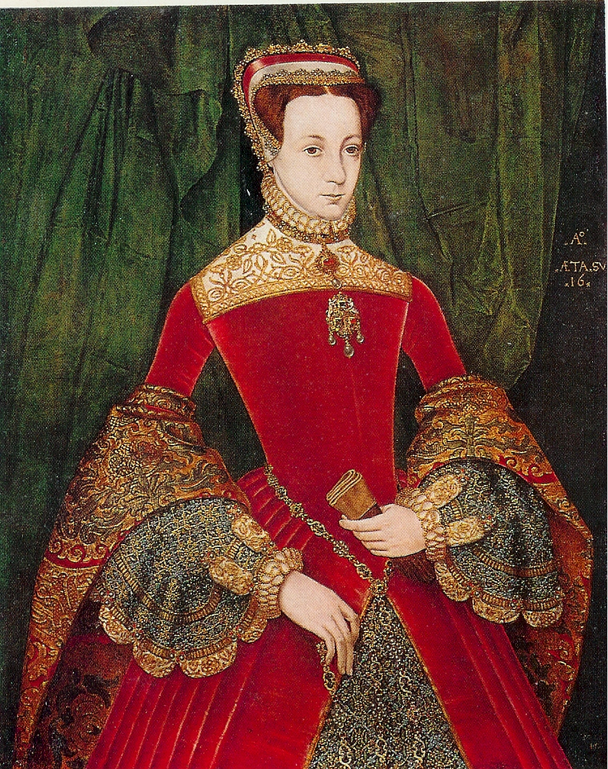 Portrait of a woman, aged sixteen, previously identified as Mary Fitzalan, Duchess of Norfolk, 1565